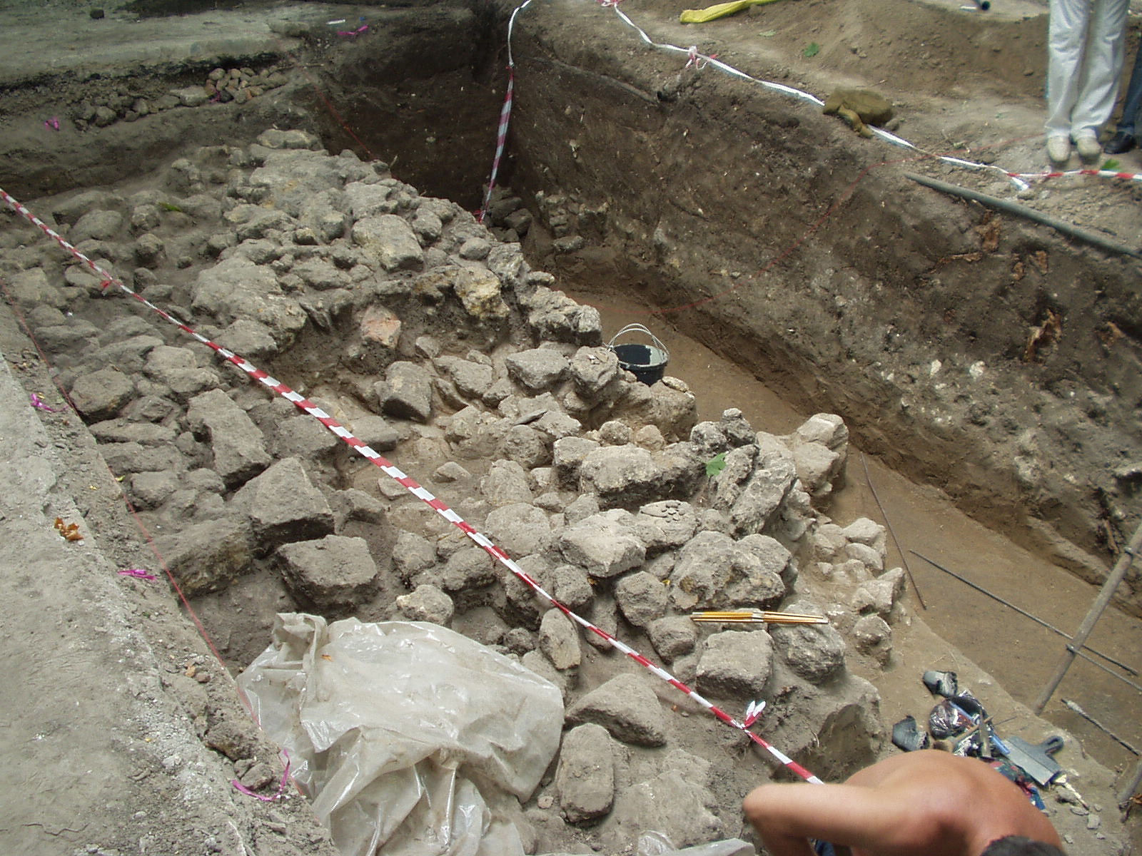 Primorsky bulvard, Odessa. Opening of the accient town.